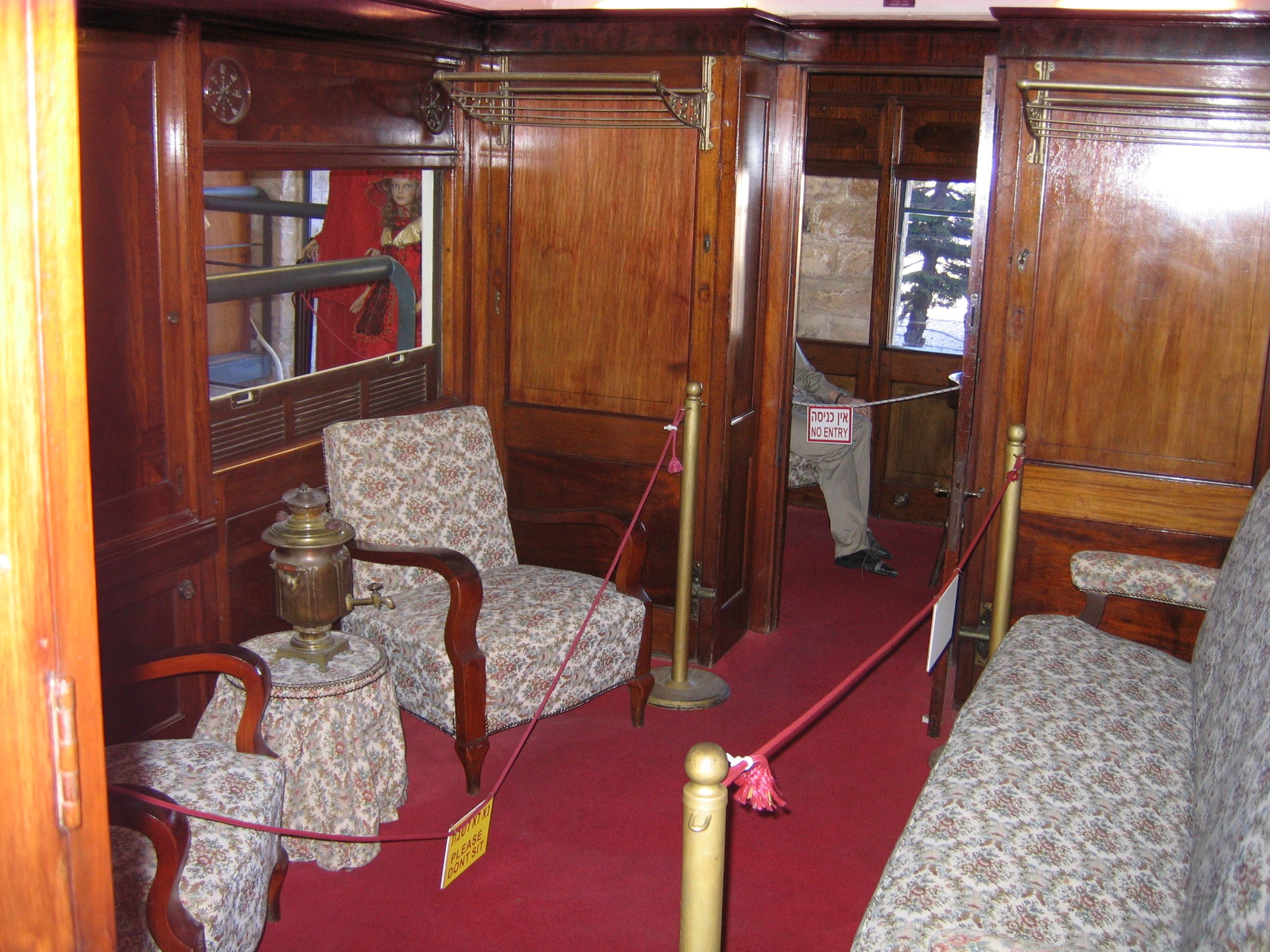 Israel Railway Museum, Haifa: Salon-coach #98 of Palestine Railways, built in 1922